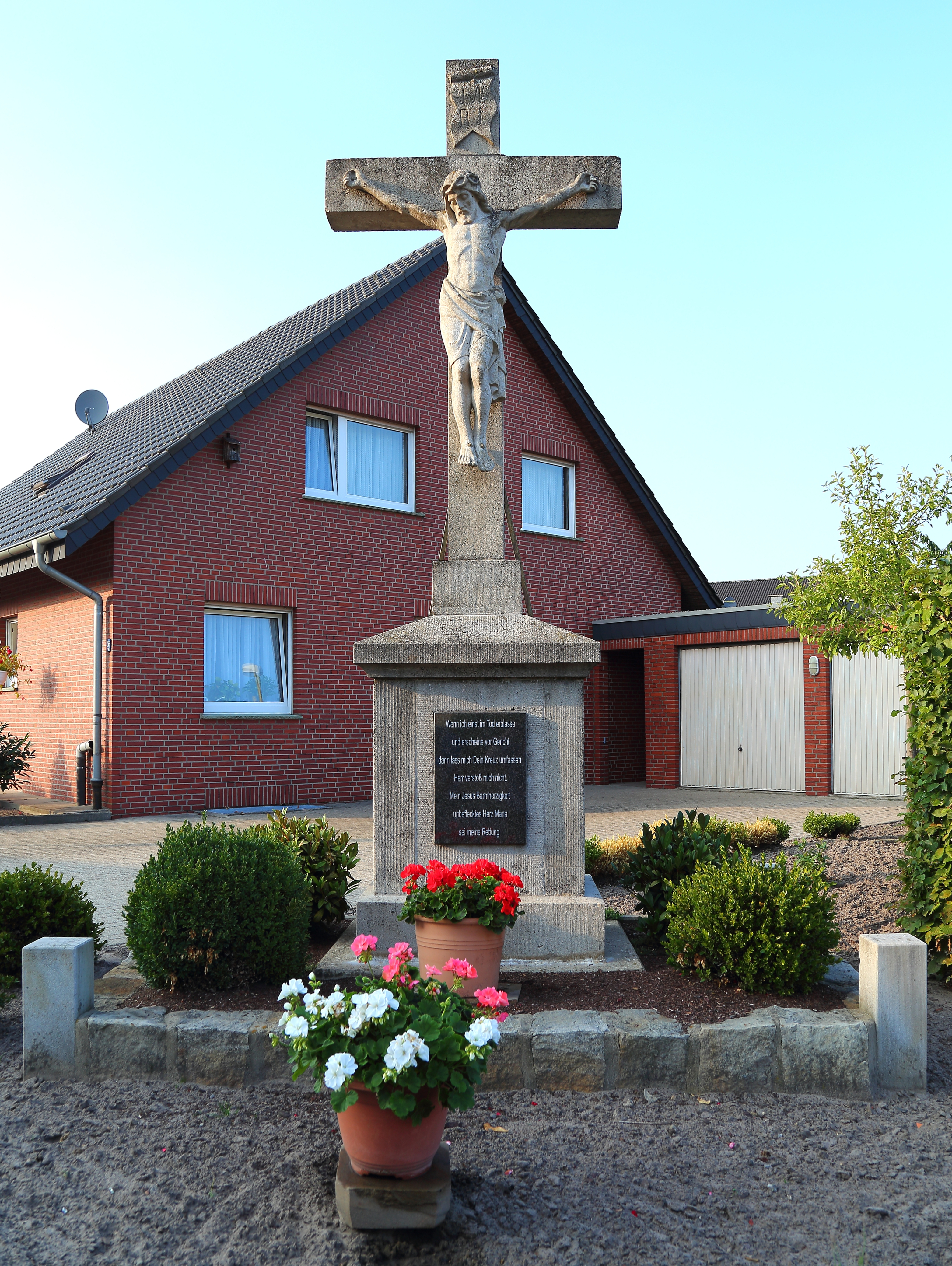 Wayside cross Wichert (Hofkreuz Wichert) in Ibbenbüren-Schierloh,, Kreis Steinfurt, North Rhine-Westphalia, Germany. The croos, errected in 1927 by August Wichert, is situated beside House Dyk in Schelderdiek Street (Schelderdiekstraße).